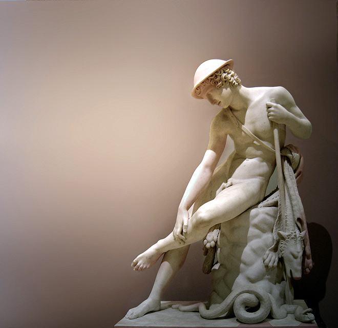 Young hunter bit by a snake. Marble, exhibited at the 1827 Salon. A plaster model was exibited at the 1819 and 1824 Salons.